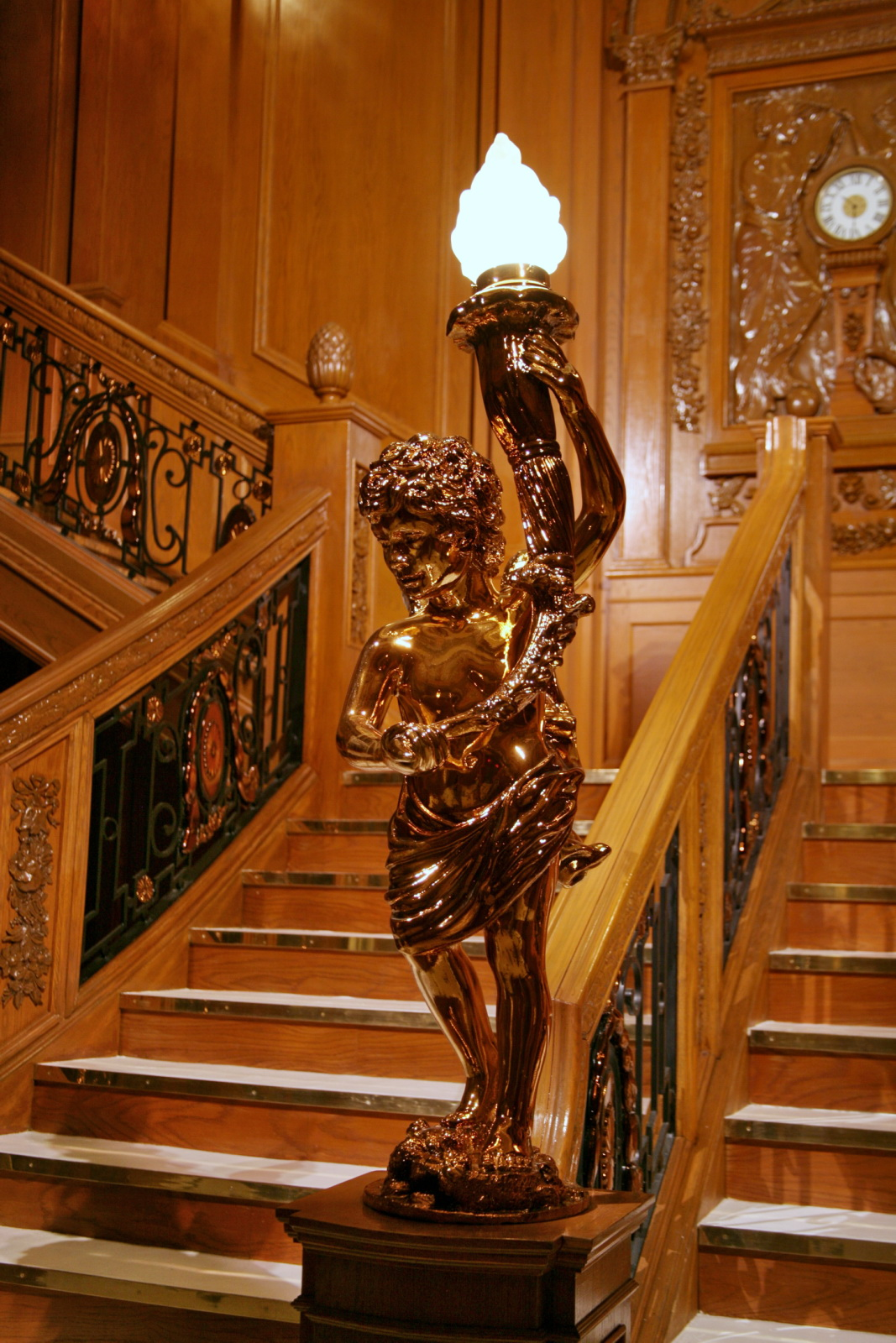 There is an alternate theory as to what happened to the grand staircase that has growing support. During the filming of the 1997 movie, a sinking set had been constructed with a wooden replica of the grand staircase. As they submerged the set during filming, the grand staircase broke away from the framework. Eyewitness reports from the sinking and analysis of the wreck support, but do not prove, that the grand staircase floated out as the ship sank. The wreck lacks sufficient debris at the bottom floor to account for the staircase disintegrating and in nearby rooms traces of wood are readily seen . Only locating the bronze fixtures would prove whether it disintegrated in place or floated out. The aft grand staircase was torn apart as the Titanic broke up shortly before sinking. Much of the wood and other debris found floating after the sinking is thought to have come from the aft staircase.